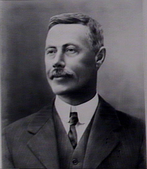 This image shows a photograph of Thomas Waddell, Premier of New South Wales.